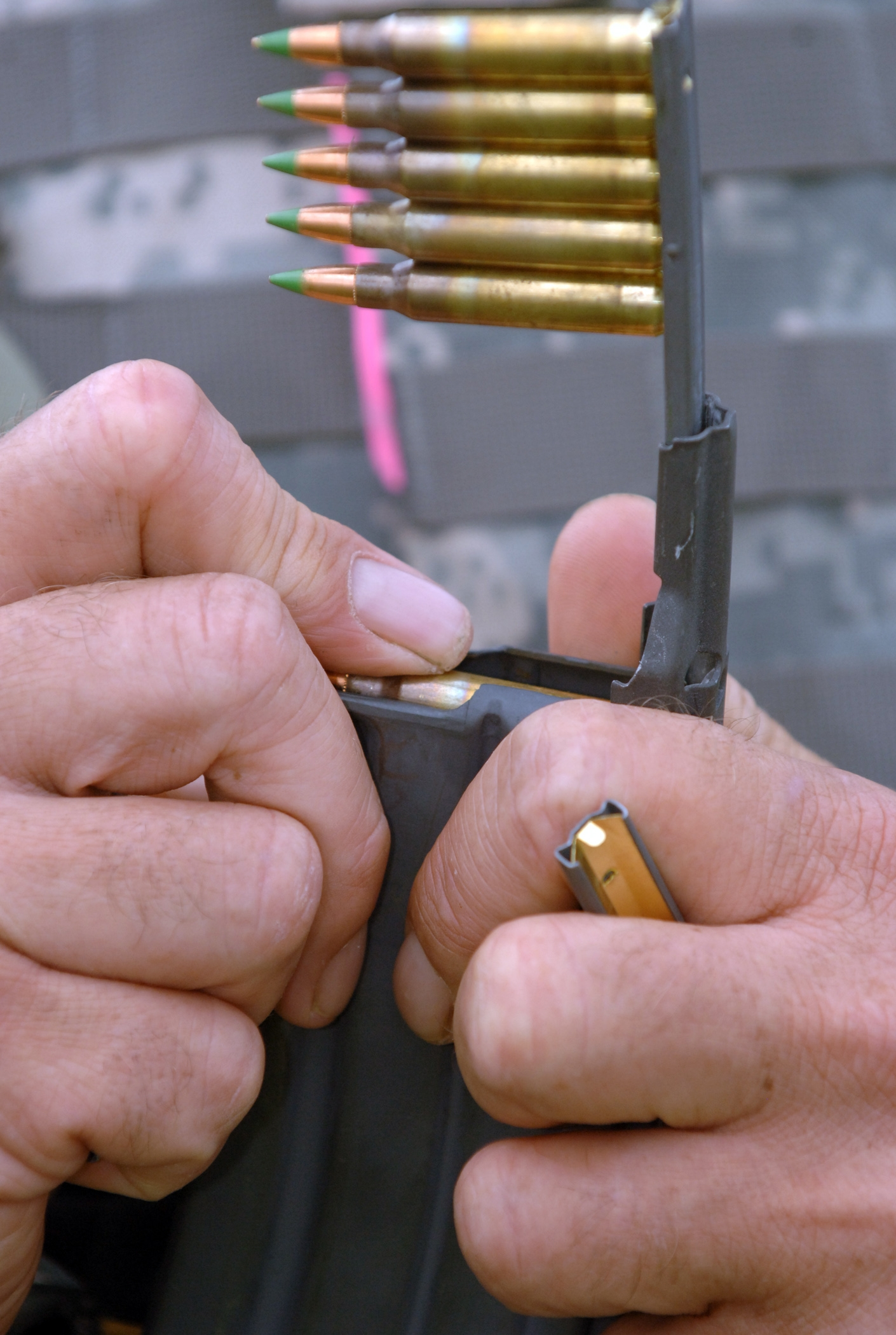 A competitor loads an M-16 magazine just before his team competes in a match during the First Army Commanders' Warrior Challenge 5-9 May at Camp Bullis, Texas.